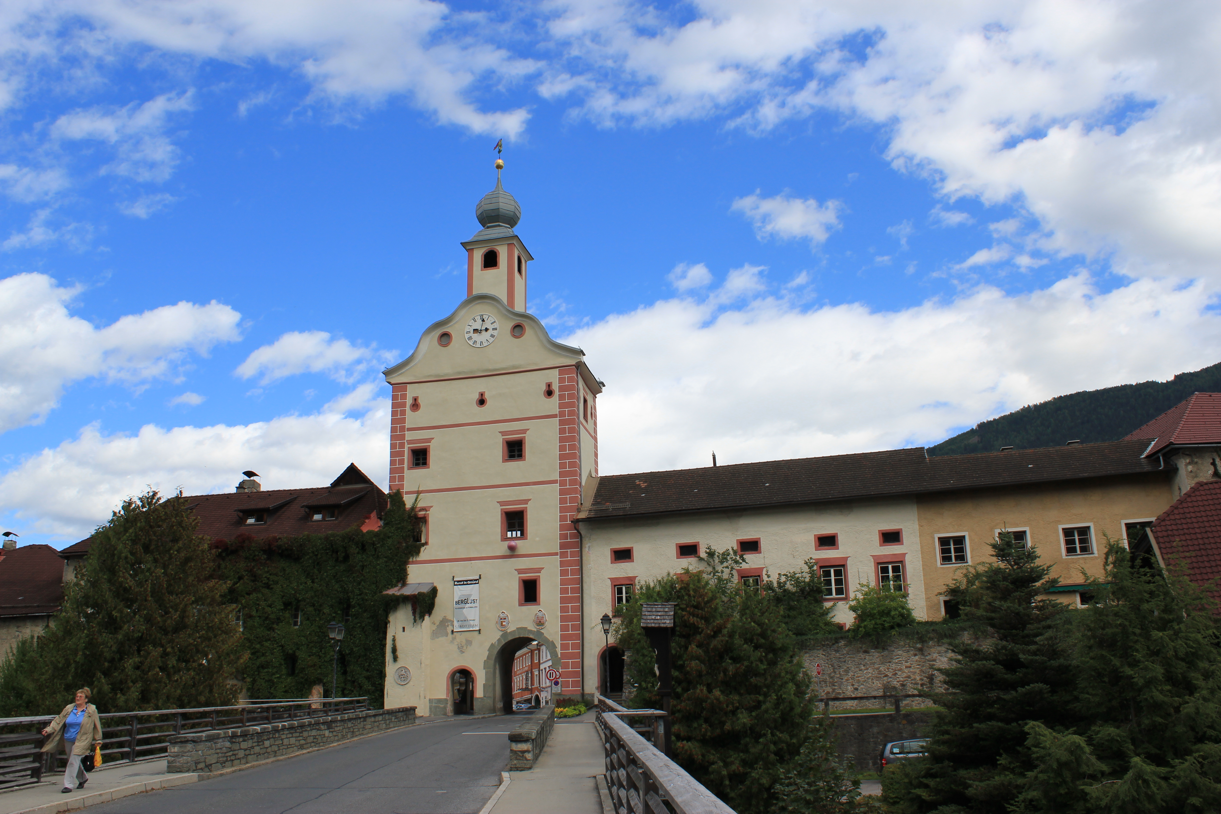 Gate in Gmünd